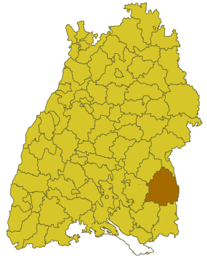 Map of Baden-Württemberg with the former county of Biberach before 1973